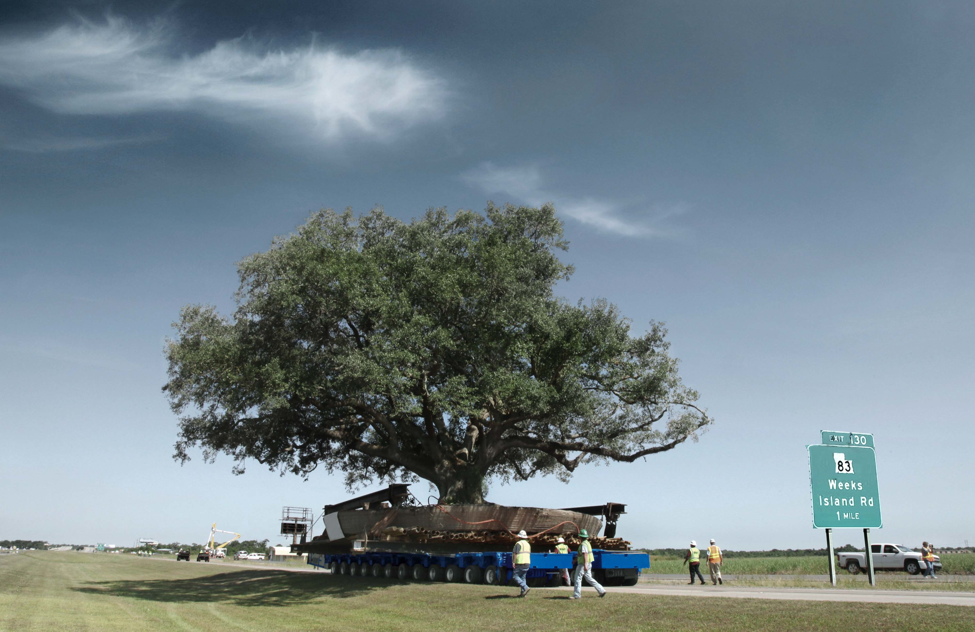 "Moving nature"